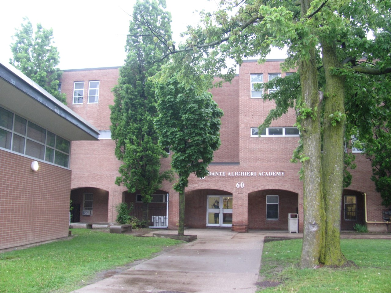 Dante Aligheri Academy Catholic Secondary School in Toronto, Ontario, Canada.